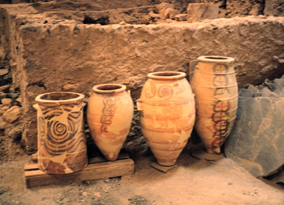 Four well preserved jars at Akrotiri米诺斯文明遗迹--大缸